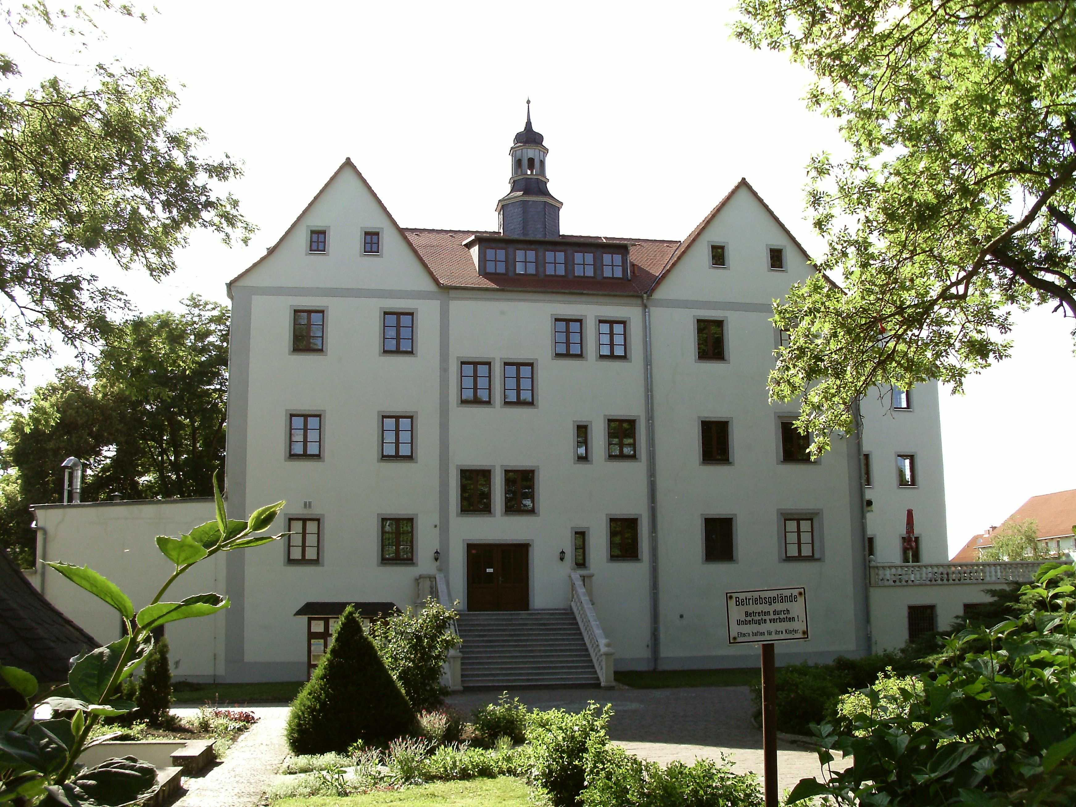 Schenkenberg castle (Delitzsch, Nordsachsen district, Saxony), east side